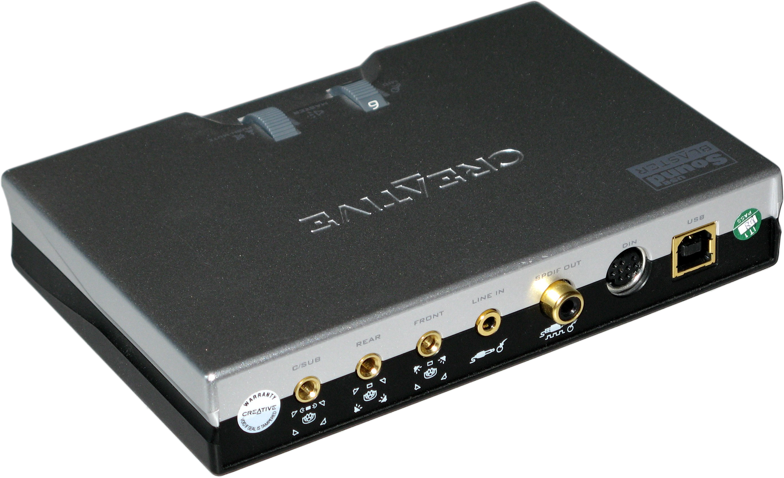 USB sound card Soundblaster Live! 24-bit external